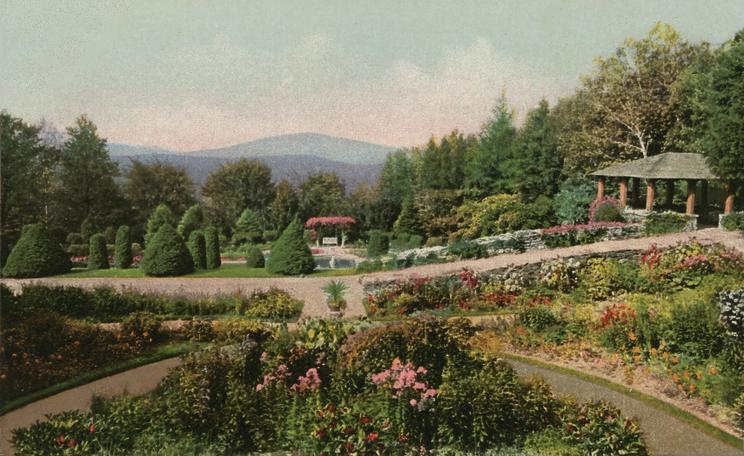 Naumkeag Gardens, Stockbridge, MA; from a c. 1908 postcard printed by the Detroit Publishing Company.